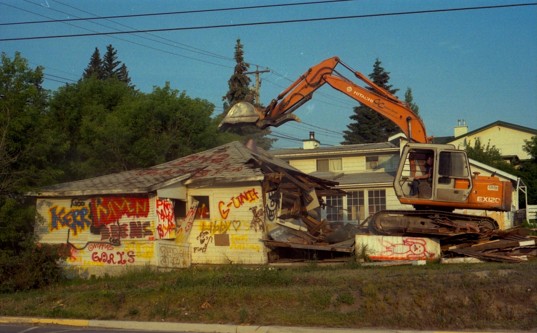 House destroyed by a excavator - Invermere, British Columbia